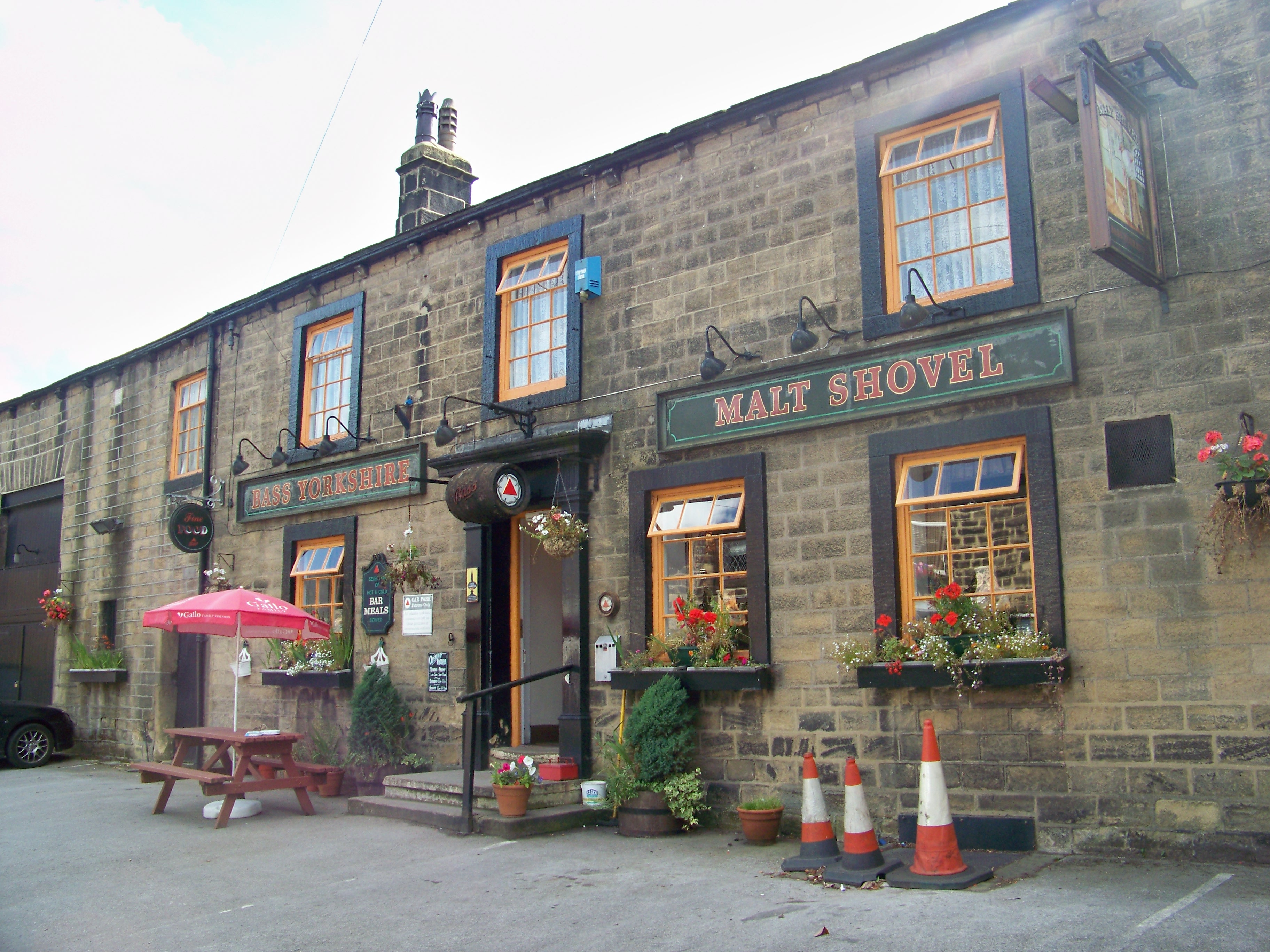 The Malt Shovel public house, Main Street, Menston, West Yorkshire. Taken on the afternoon of Saturday 22nd August 2009.